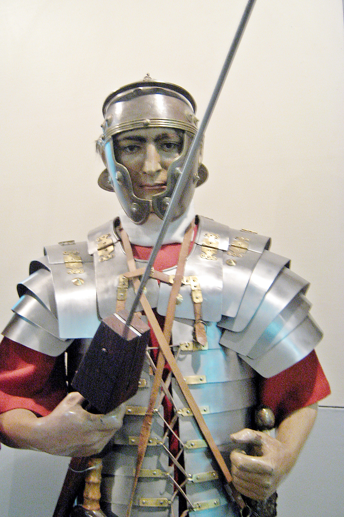 Roman military clothes from ancient empire, National Military Museum in Bucharest, Romania